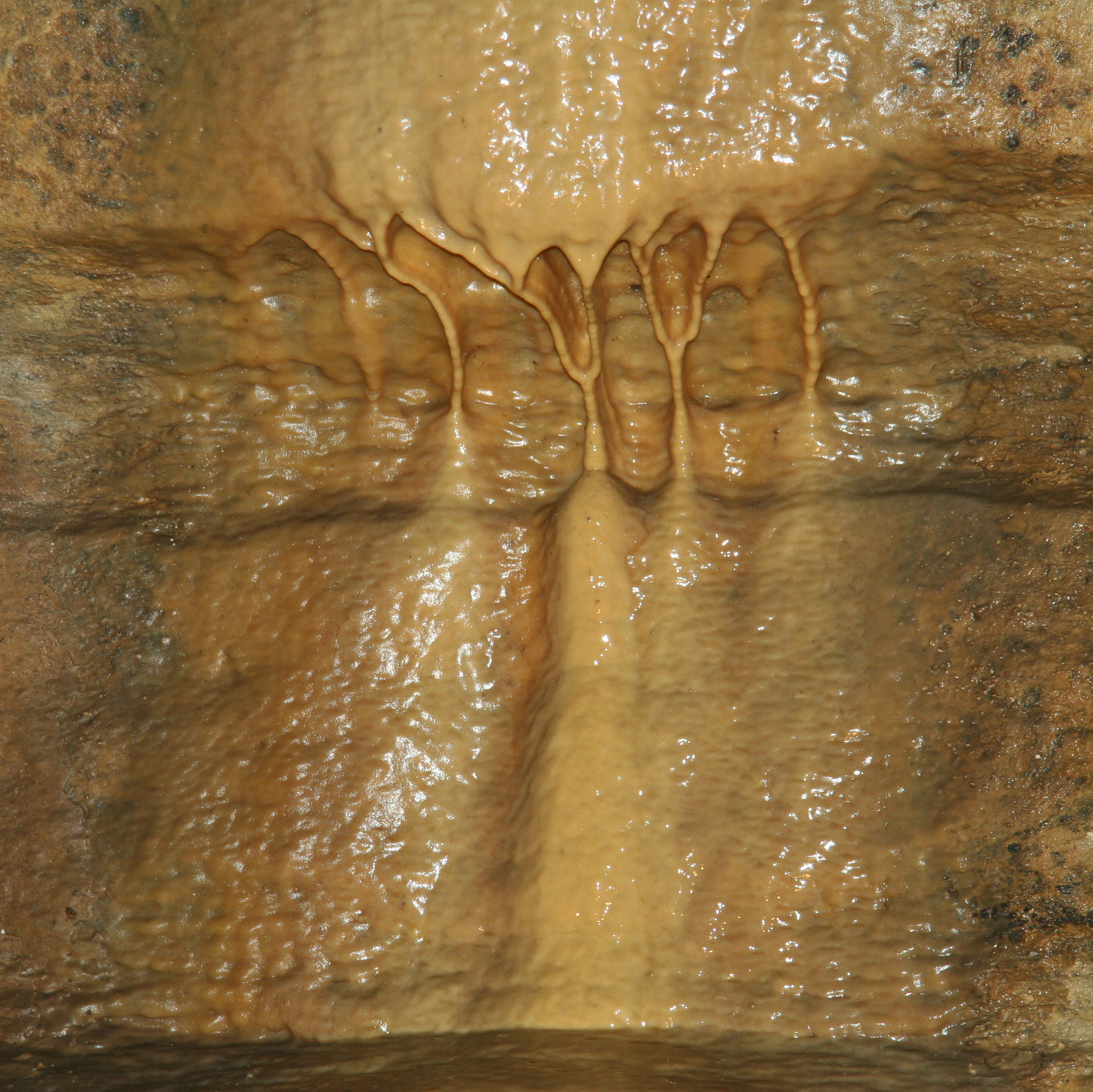 Flowstone wall formation in Mystery Cave Minnesota State Park